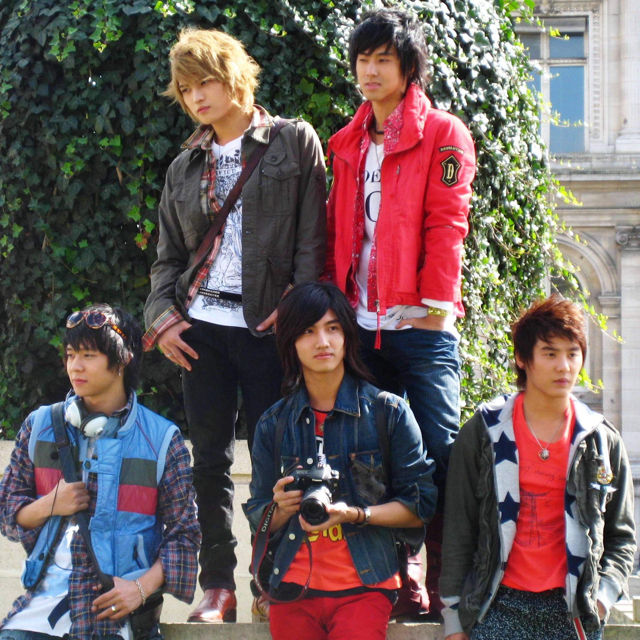 Cropped from File:TVXQ in Paris France.JPG. A fan picture taken in Paris, France in 2007 during their short visit to the country for their Bonjour Paris photoshoot. From top-left: Hero Jaejoong, Uknow Yunho; bottom-left: Micky Yoochun, Max Changmin, and Xiah Junsu. Original upload log The original description page was here. All following user names refer to en.wikipedia. 2007-12-19 01:25 Ninjacatherine 3072×2304×8 (932742 bytes) A picture taken by me in Paris, France in 2007 during their visit here. I was lucky to meet them.